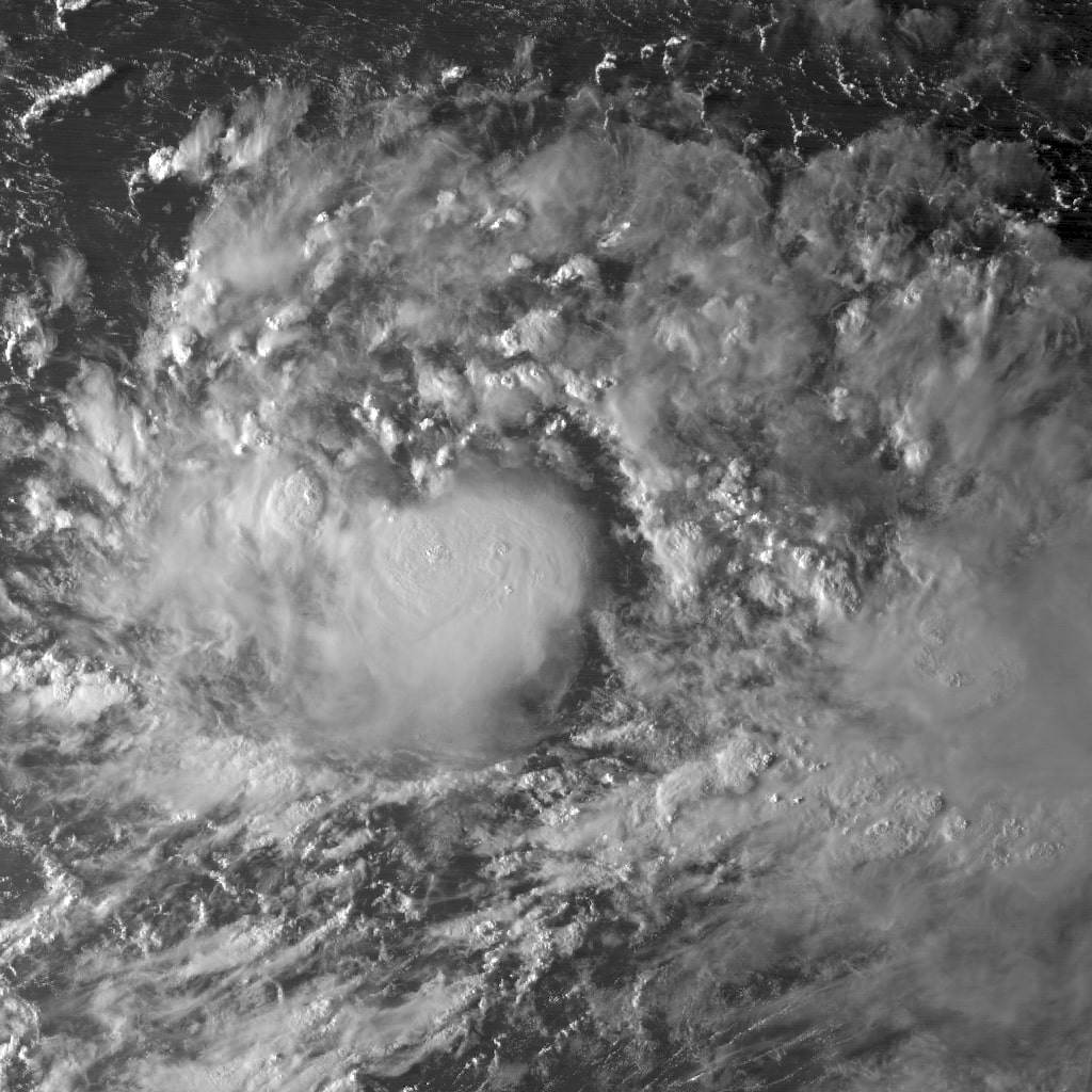 Tropical Storm 18W at peak intensity on September 29, 2009